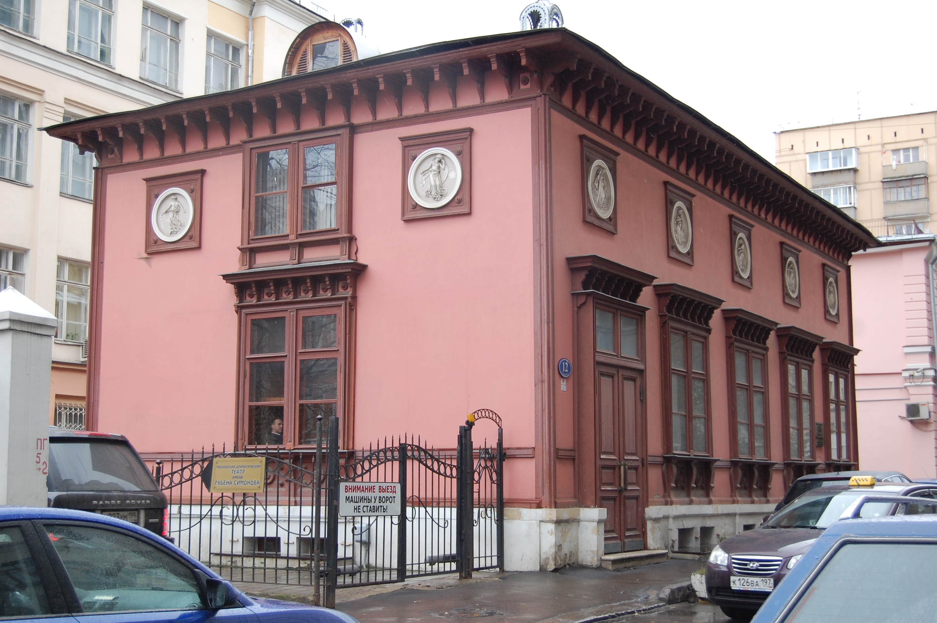 Lopyrevsky House on the Arbat street in Moscow